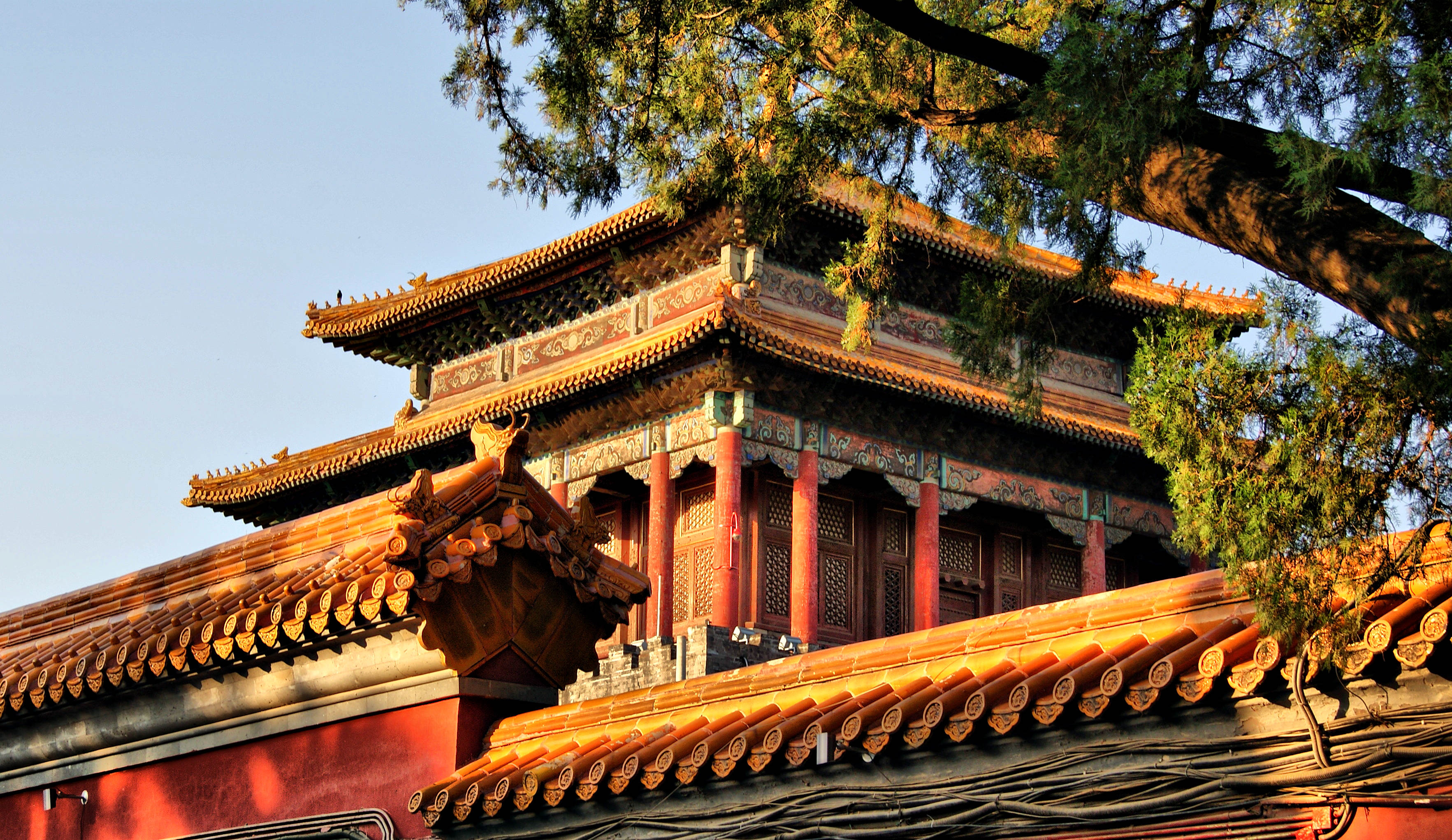 Forbiden city-Beijing-China